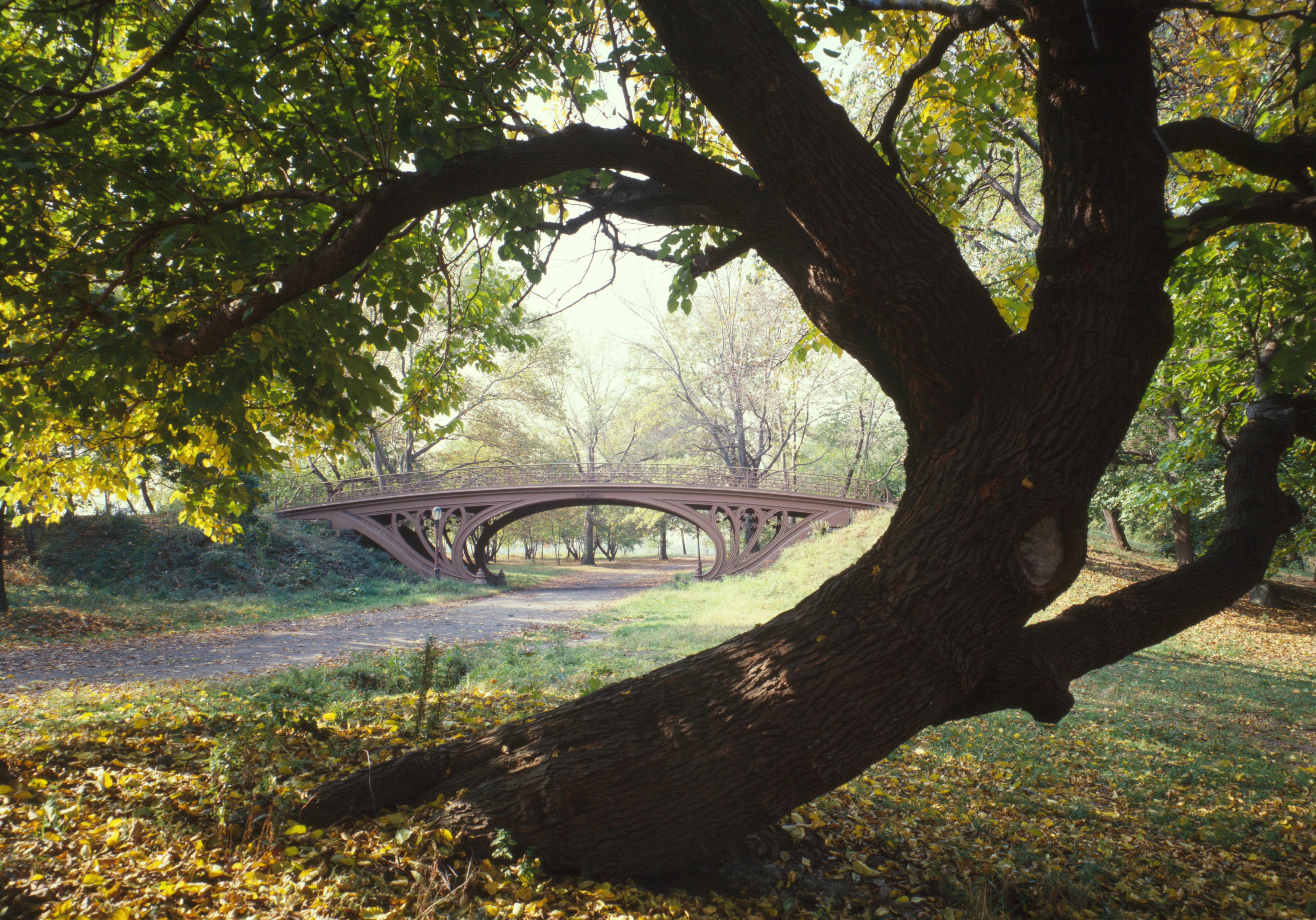 A bridge in Central Park|Central Park, New York City. The original title with the photo is Central Park Bridges, Gothic Arch, Spanning bridlepath south of tennis courts at nort, New York City, New York County, NY with the description view from bridlepath looking southwest